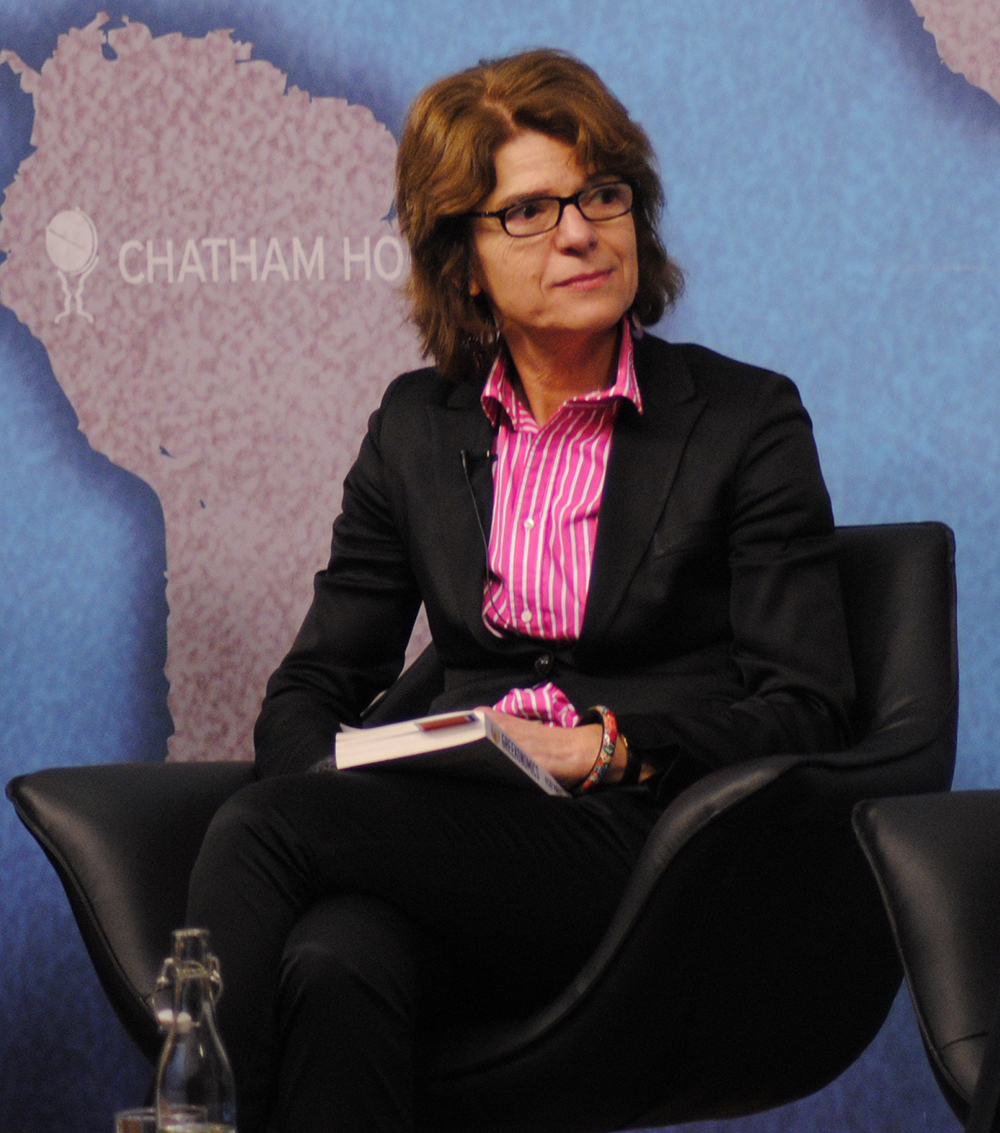 Vicky Pryce, Senior Managing Director, Economics, FTI Consulting; Author, Greekonomics at the Chatham House event Greece and the Eurozone: A New Approach?, Tuesday 11 December 2012